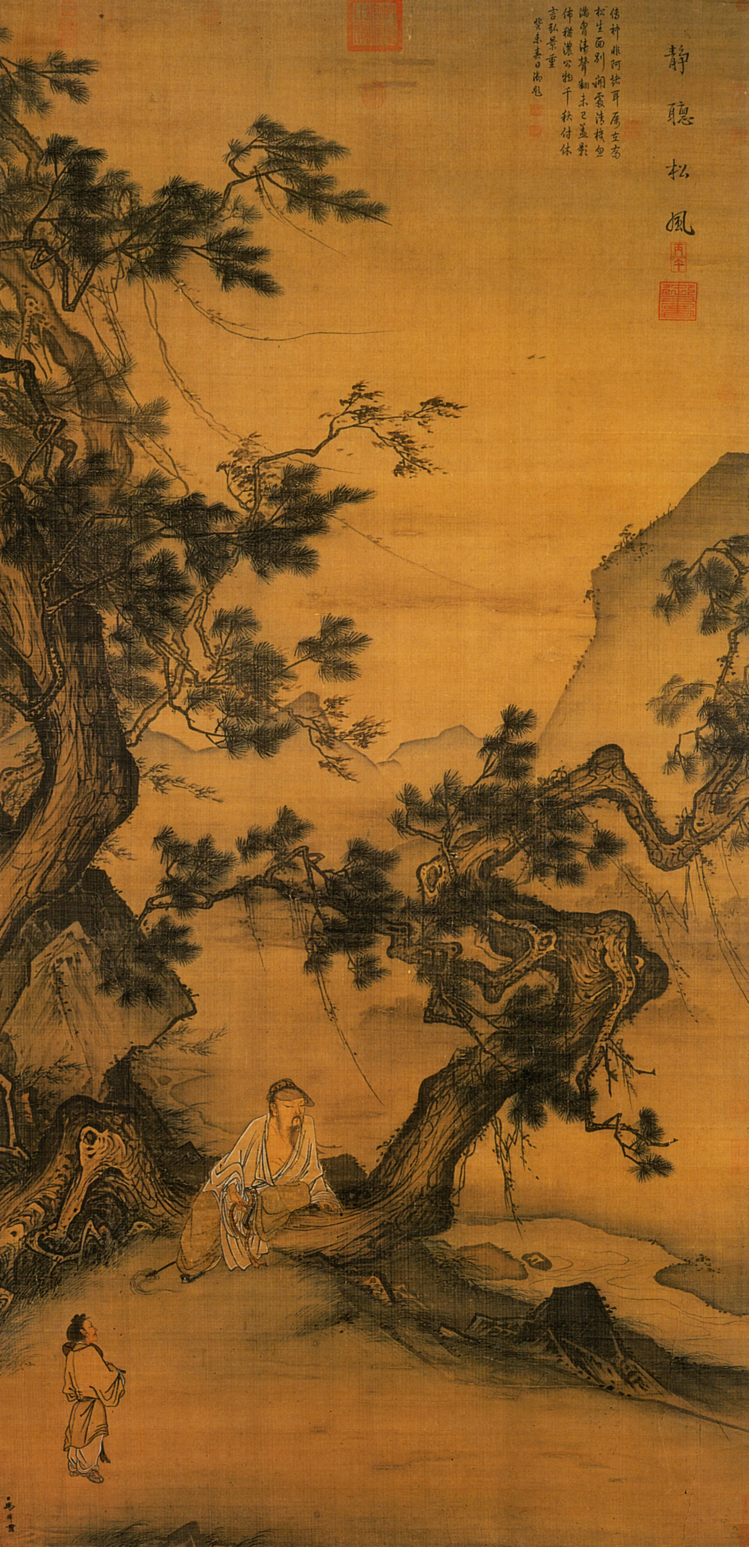 Quietly Listening to Wind in the Pines - Hanging Scroll - Color on silk - 226.6x110.3 cm. National Palace Museum, Taibei, Taiwan. for museum asset information.